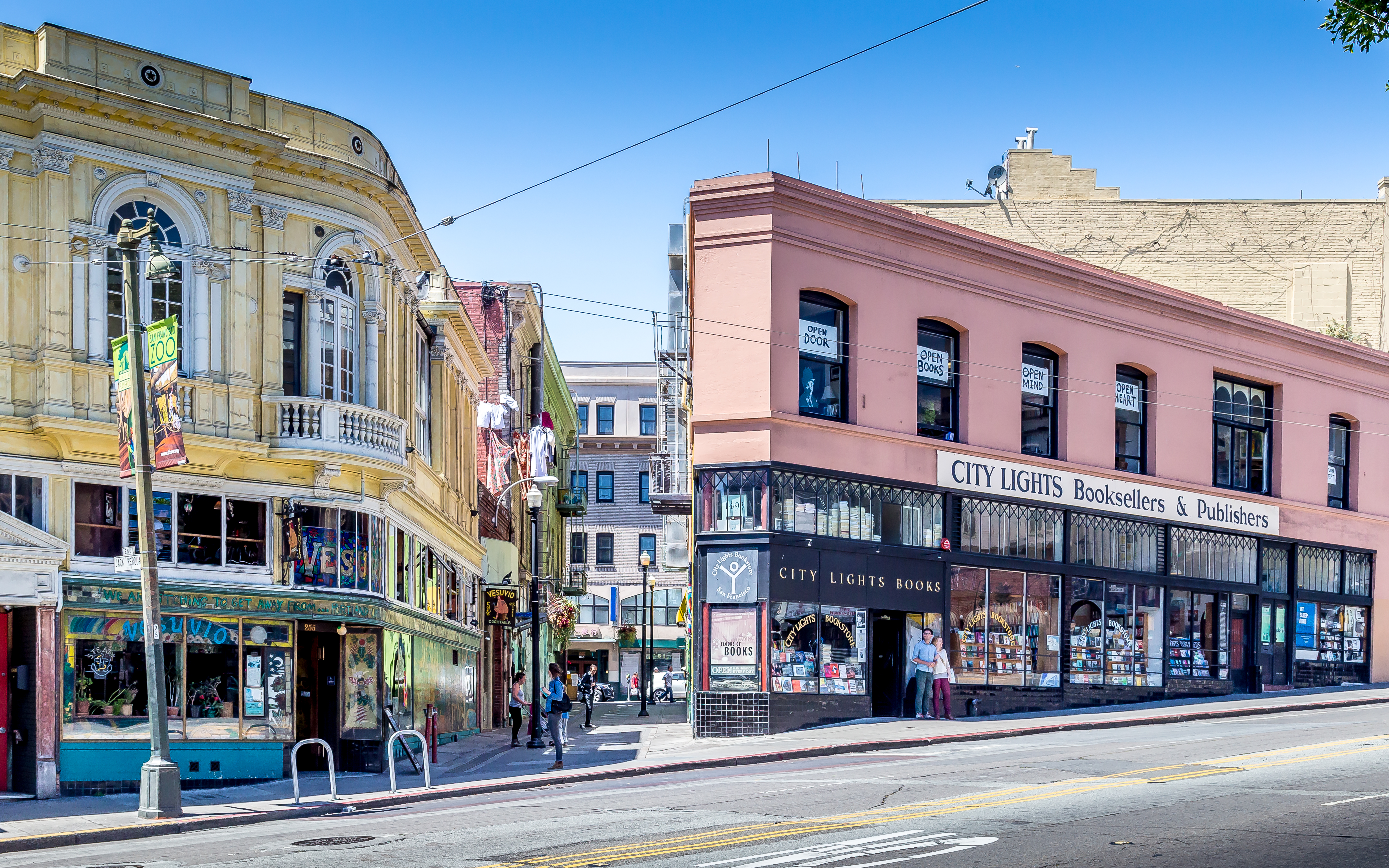 Vesuvio, Jack Kerouac Alley, City Lights Books